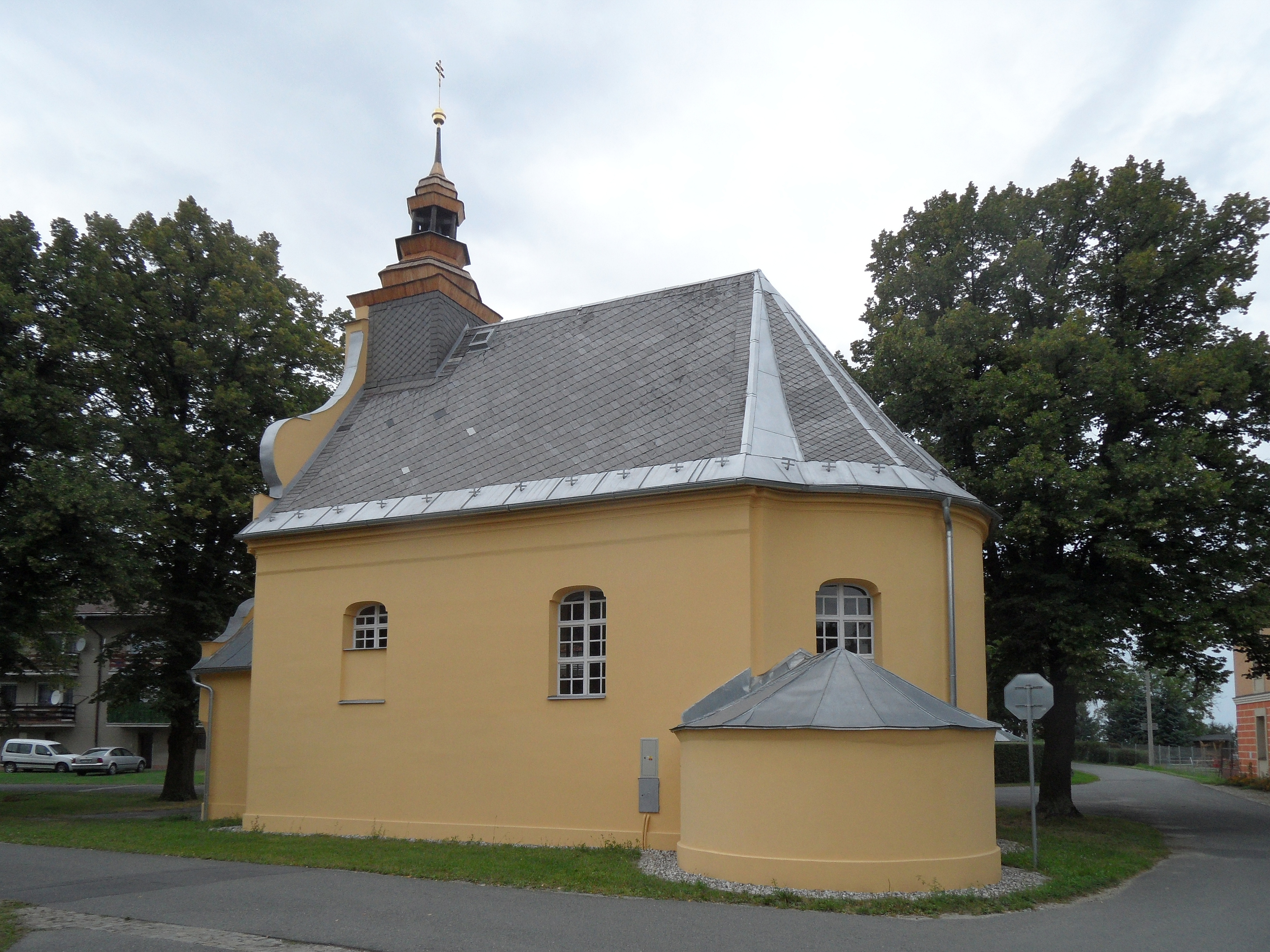 Velká Kraš: Church of Saint Florian: View from South. Jeseník District, the Czech Republic.